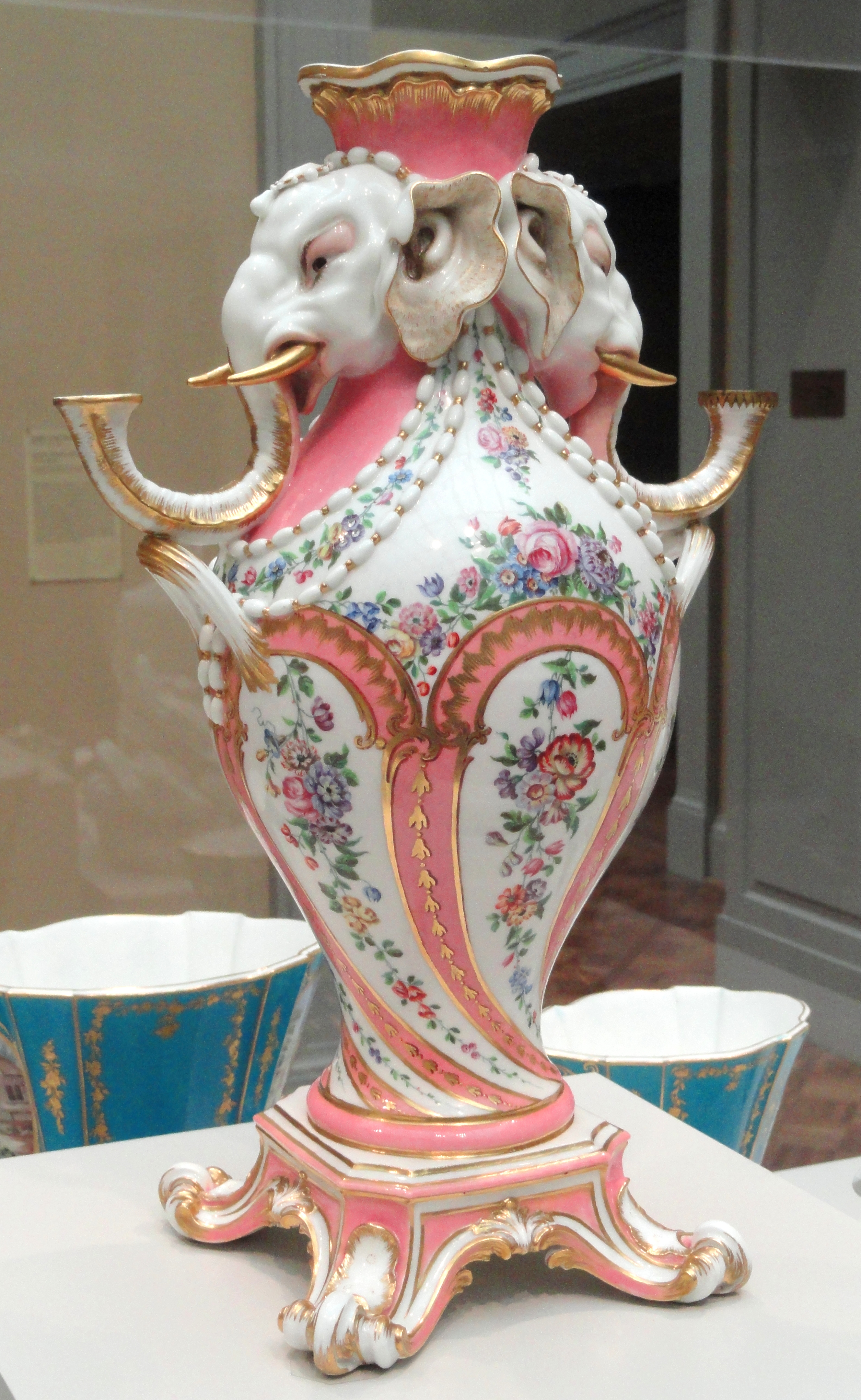 Exhibit in the Art Institute of Chicago, Chicago, Illinois, USA. This artwork is in the public domain because the artist died more than 70 years ago.